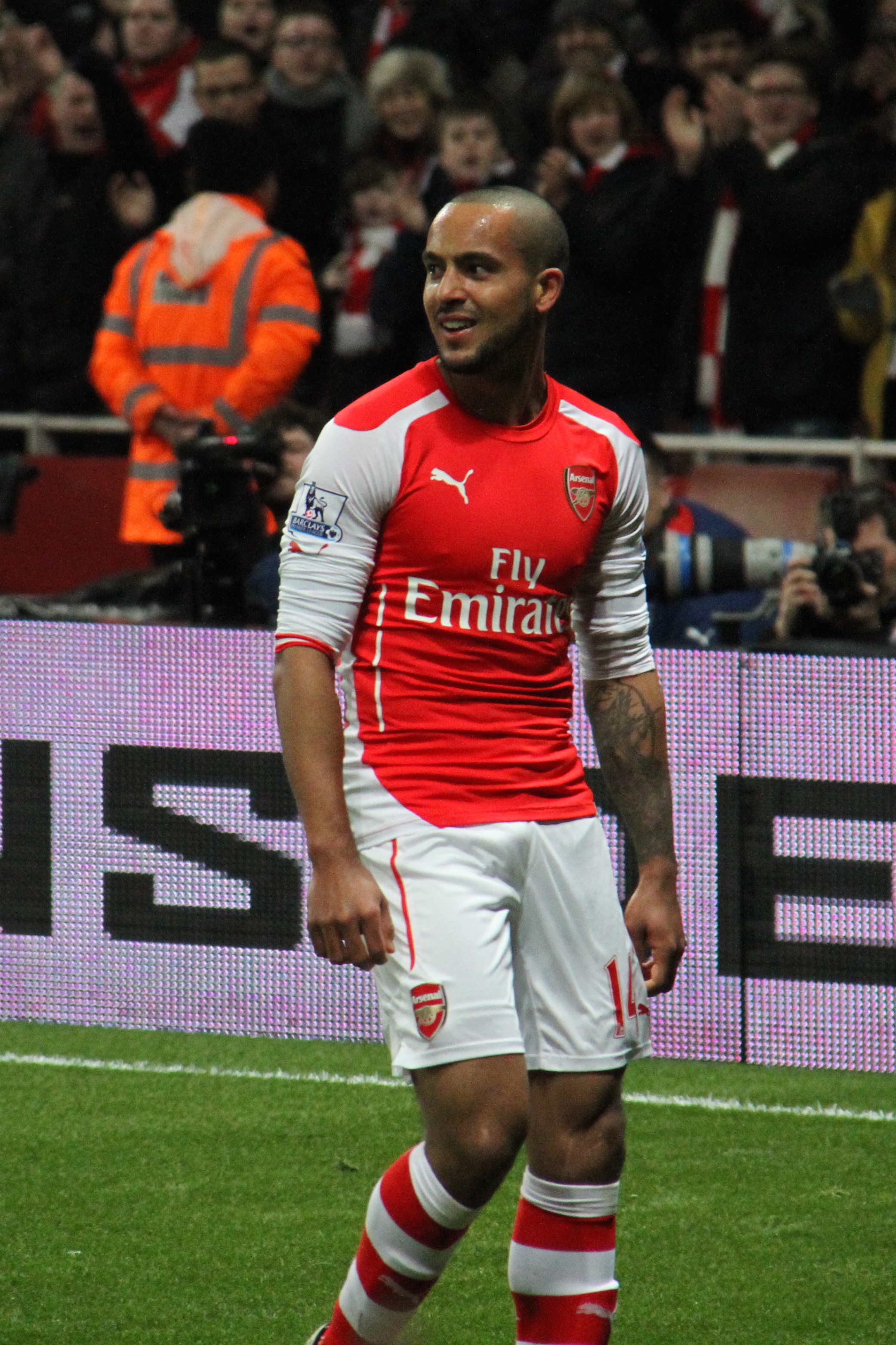 Theo Walcott happy with his goal! 1